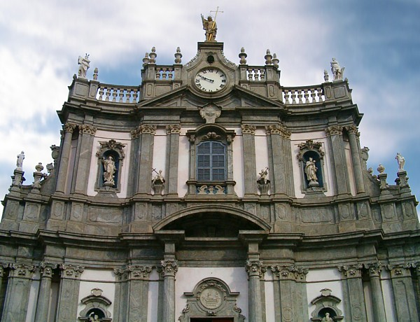 Church in Morbegno Picture taken and edited by user:Idéfix april 2004